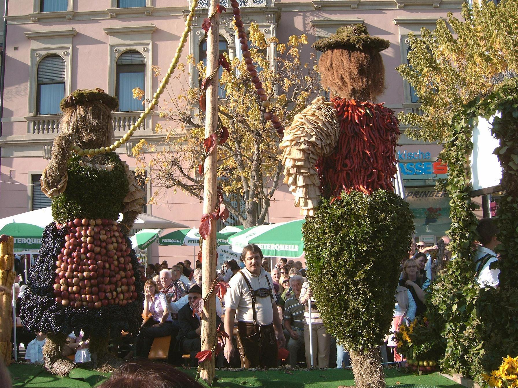 Harvest Festival Procession in Styria (Austria)